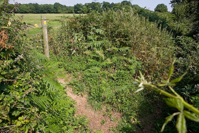 King's Way crosses Menslands Lane. King's Way is the waymarked route at left. Ahead is part of Menslands Lane that is heavily overgrown and impassable. Menslands Lane is not a public right of way but rather one of those lanes to which the public have access. Doubtless this makes sense to somebody. See also 901788